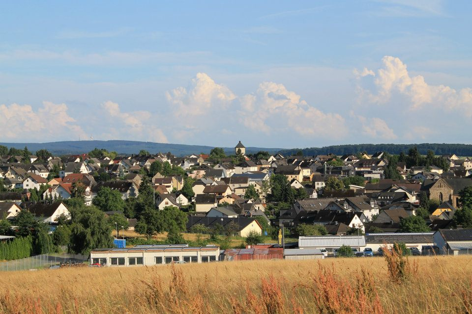 Panorama Grossmaischeid 2012